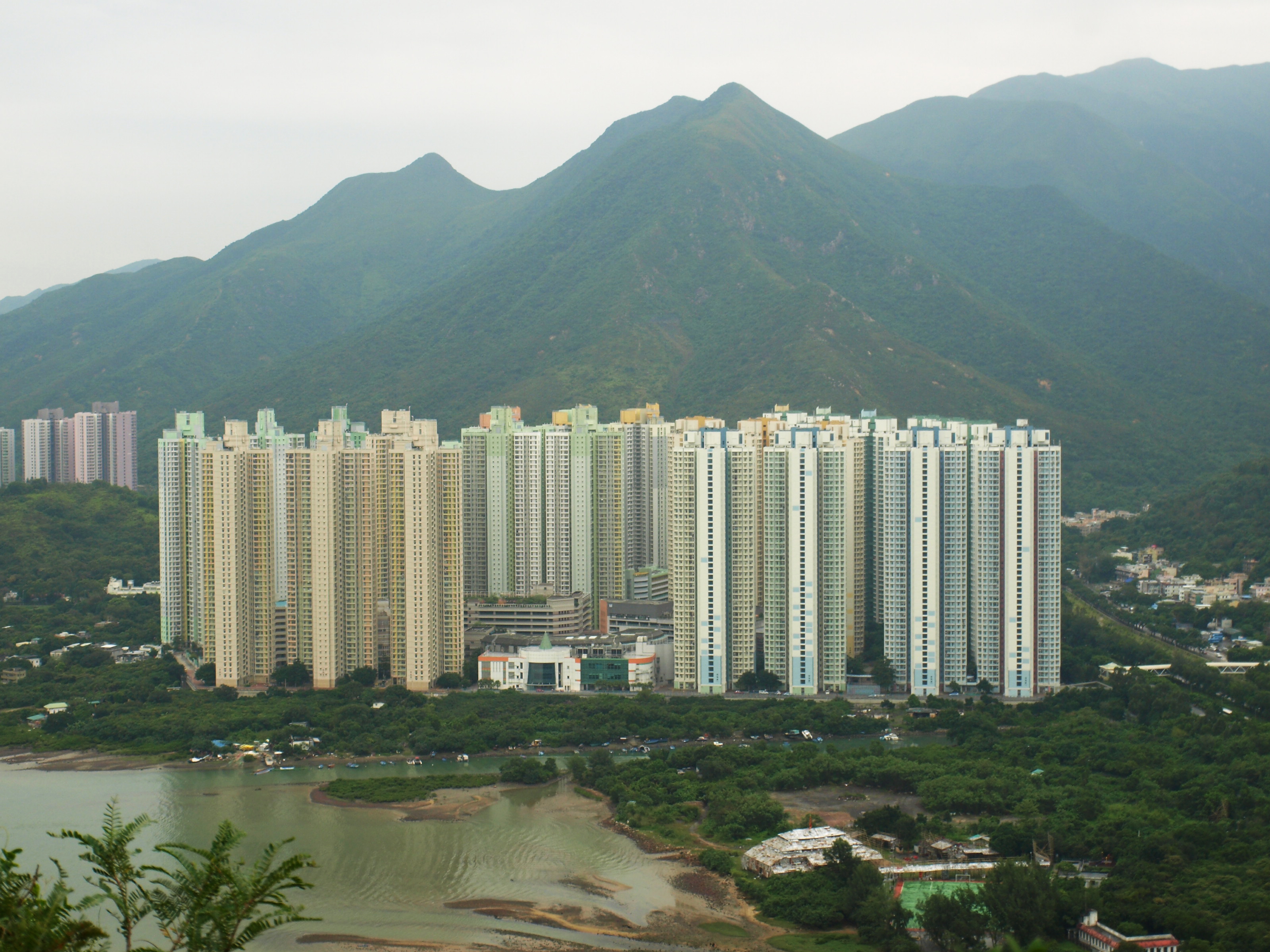 Full view of Yat Tung Estate